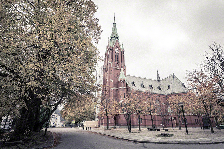 Johanneskirken is a church from 1894 in Bergen, Norway. The church is one of five churches in Bergen Cathedral parish in the Bergen arch-deanery in the Diocese of Bjørgvin. The red, brick cruciform church has 1250 seats, making it the largest church in Bergen. The church was built between 1891 and 1894 in the Gothic Revival style.